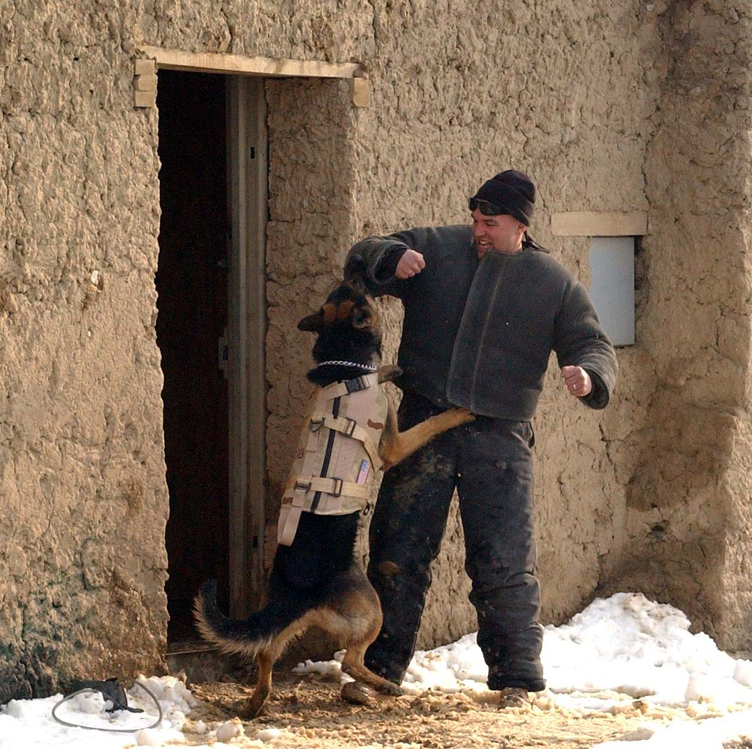 Working dog wearing a "K9 Storm" bullet proof vest in Afghanistan, receives training.